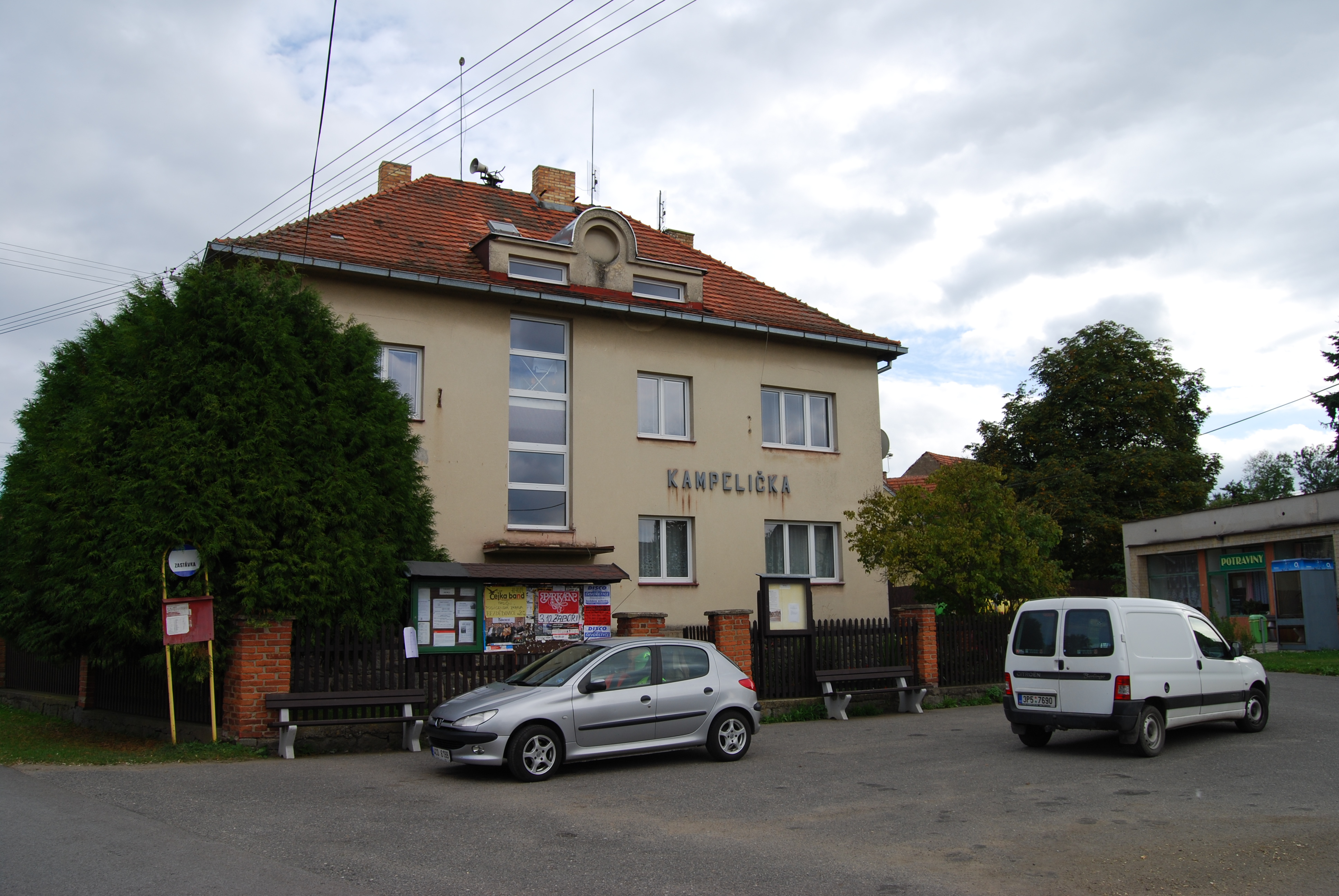 Kocelovice village in Strakonice District. Czech Republic.